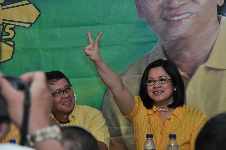 Kata Inocencio during the filing of her Certificate of Candidacy for Senator at the Commission on Elections in Manila, Philippines